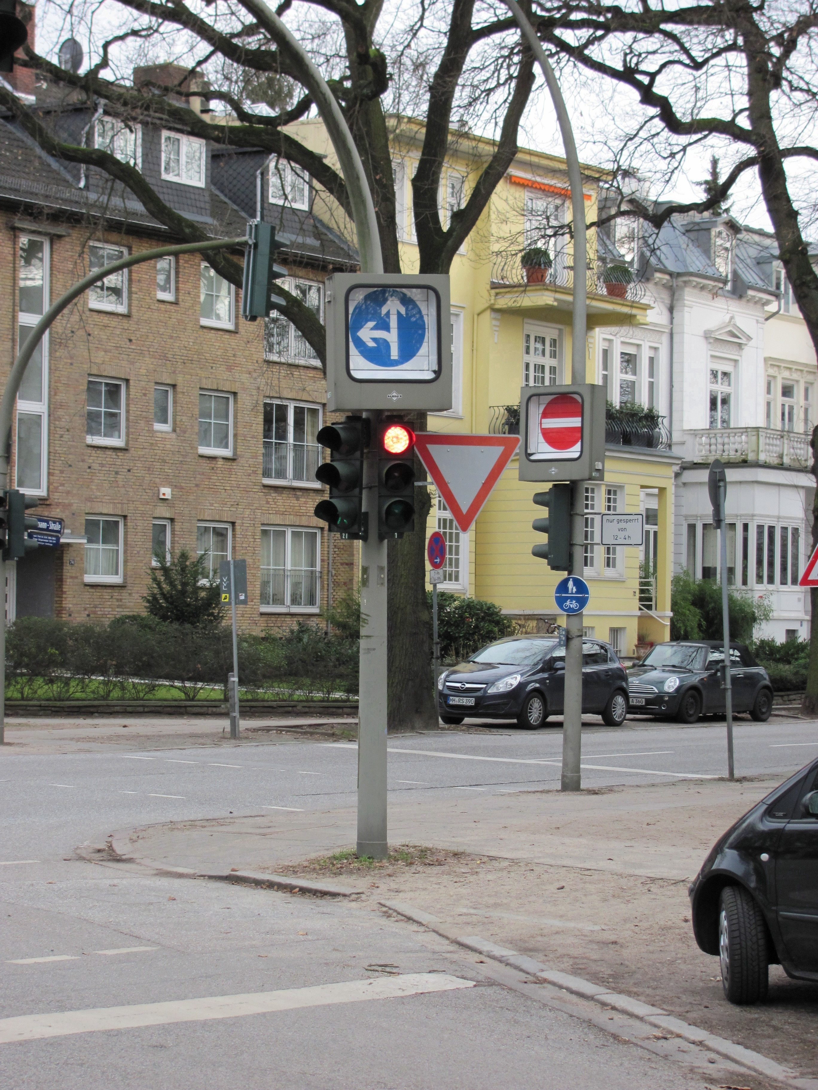 Changeable traffic signs in Hamburg, February 2011